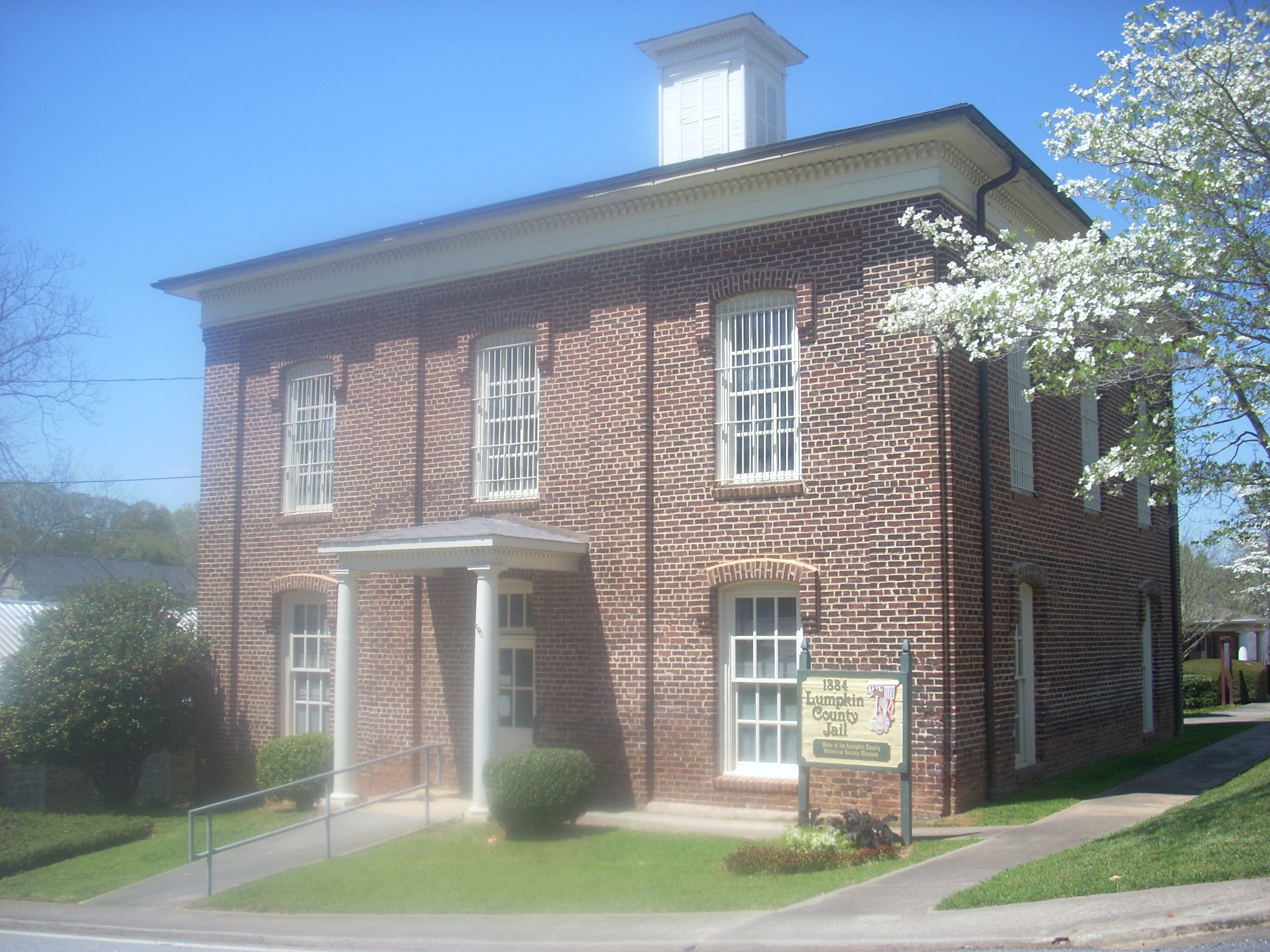 Lumpkin County Jail, Dahlonega, Georgia